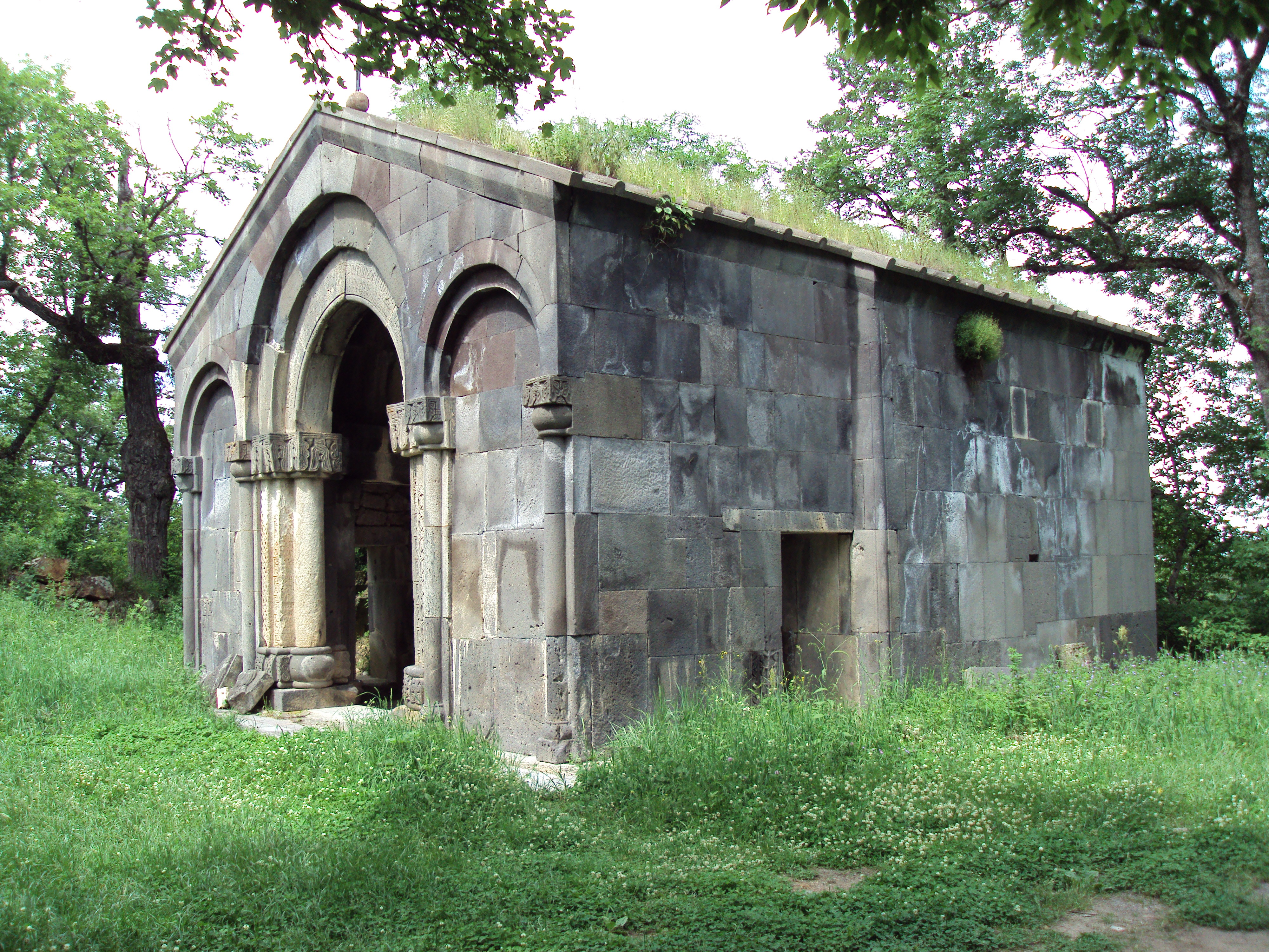 Monastery complex Bgheno-Noravank, 936-1062